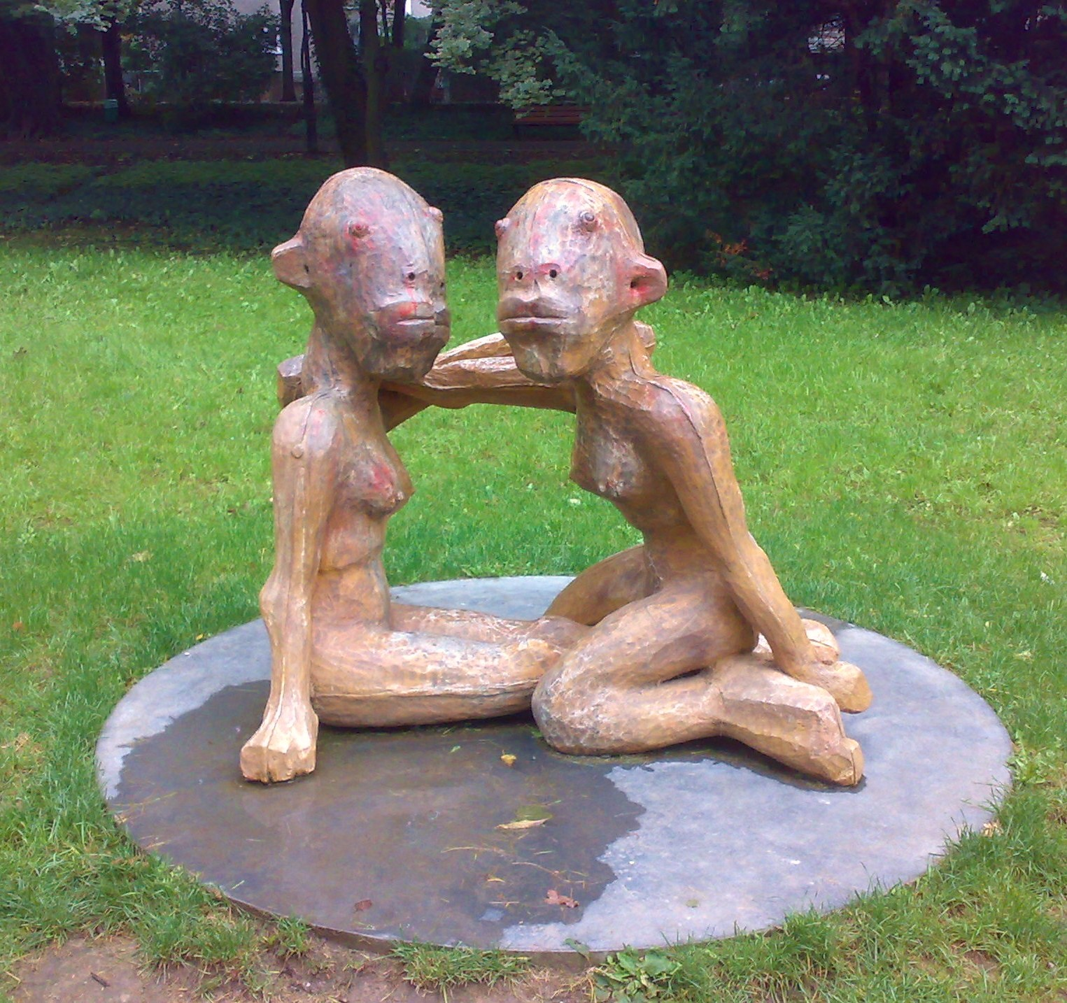 2 Womens - Poznan, Solacki Park. Sylw. Ambroziak.